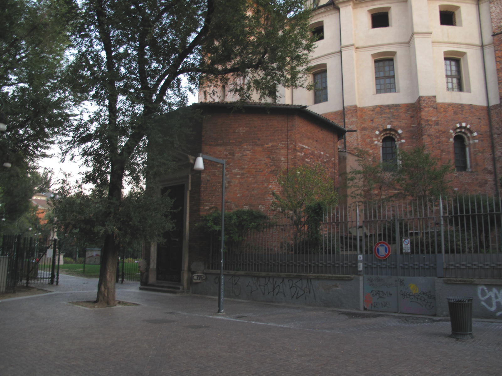 Exterior of the Paleochristian chapel of Saint Sixtus, North side of San Lorenzo (Milan)